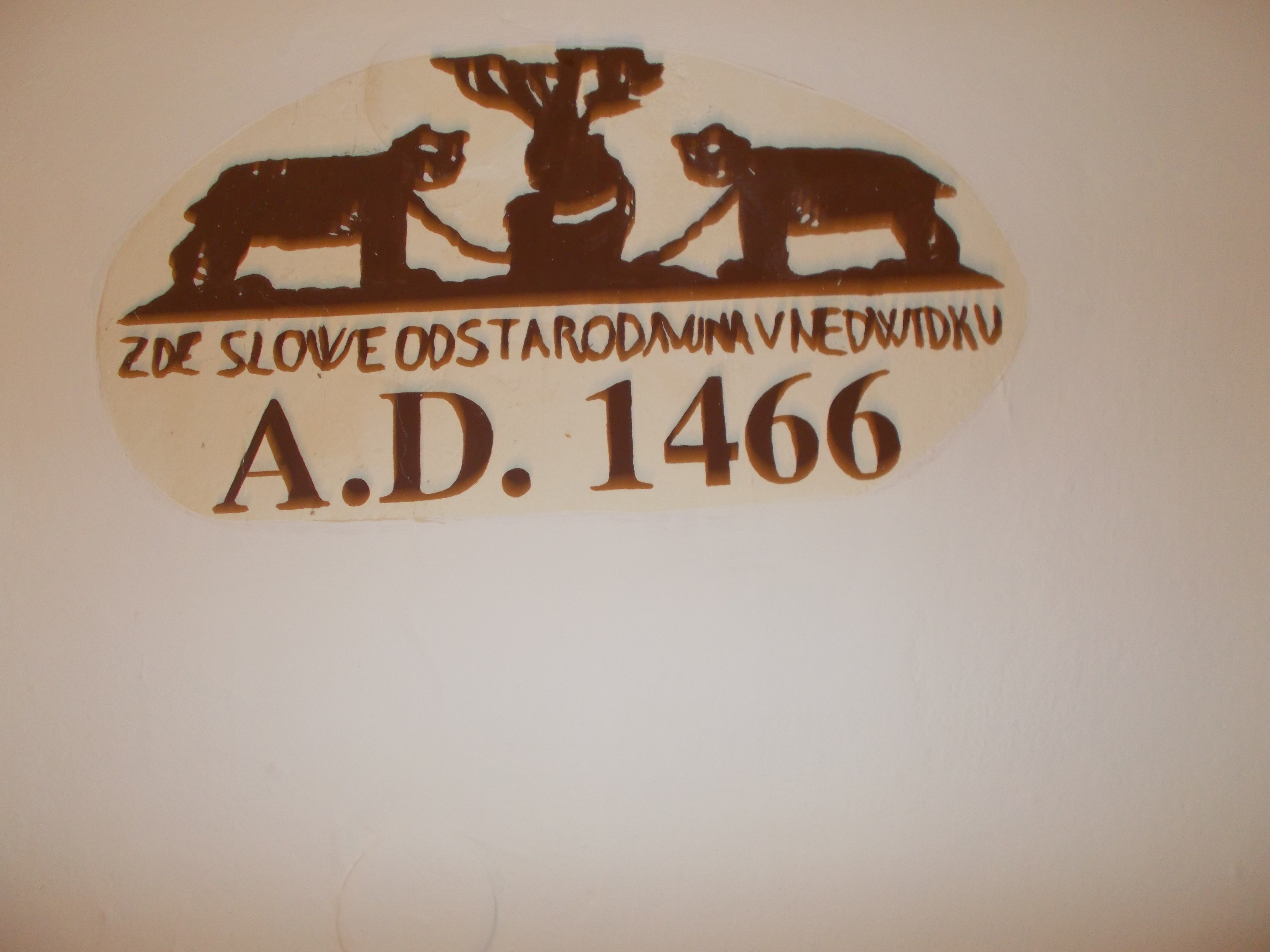 "U Medvidku beer hall pub" coat of arms. One of the World's oldest beer pubs in Prague